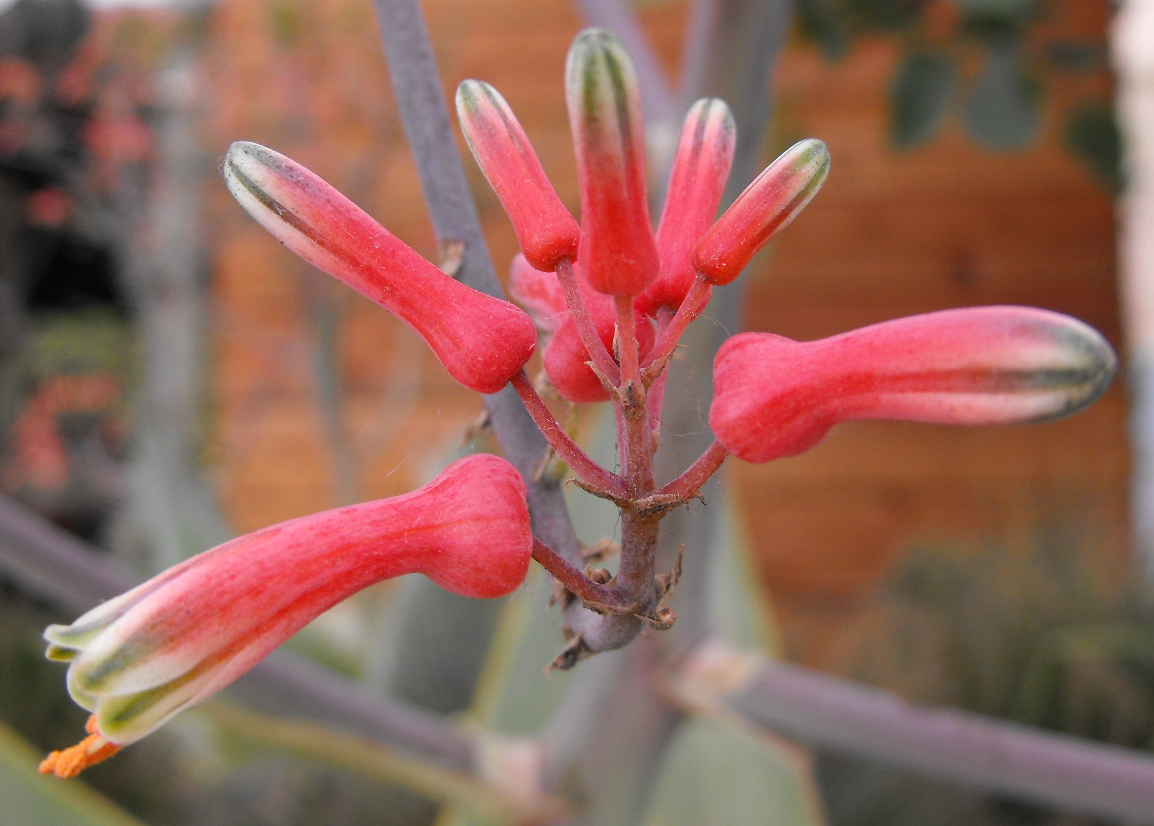 Aloe striata on display at the San Diego County Fair, California, USA. Identified by exhibitor's sign.